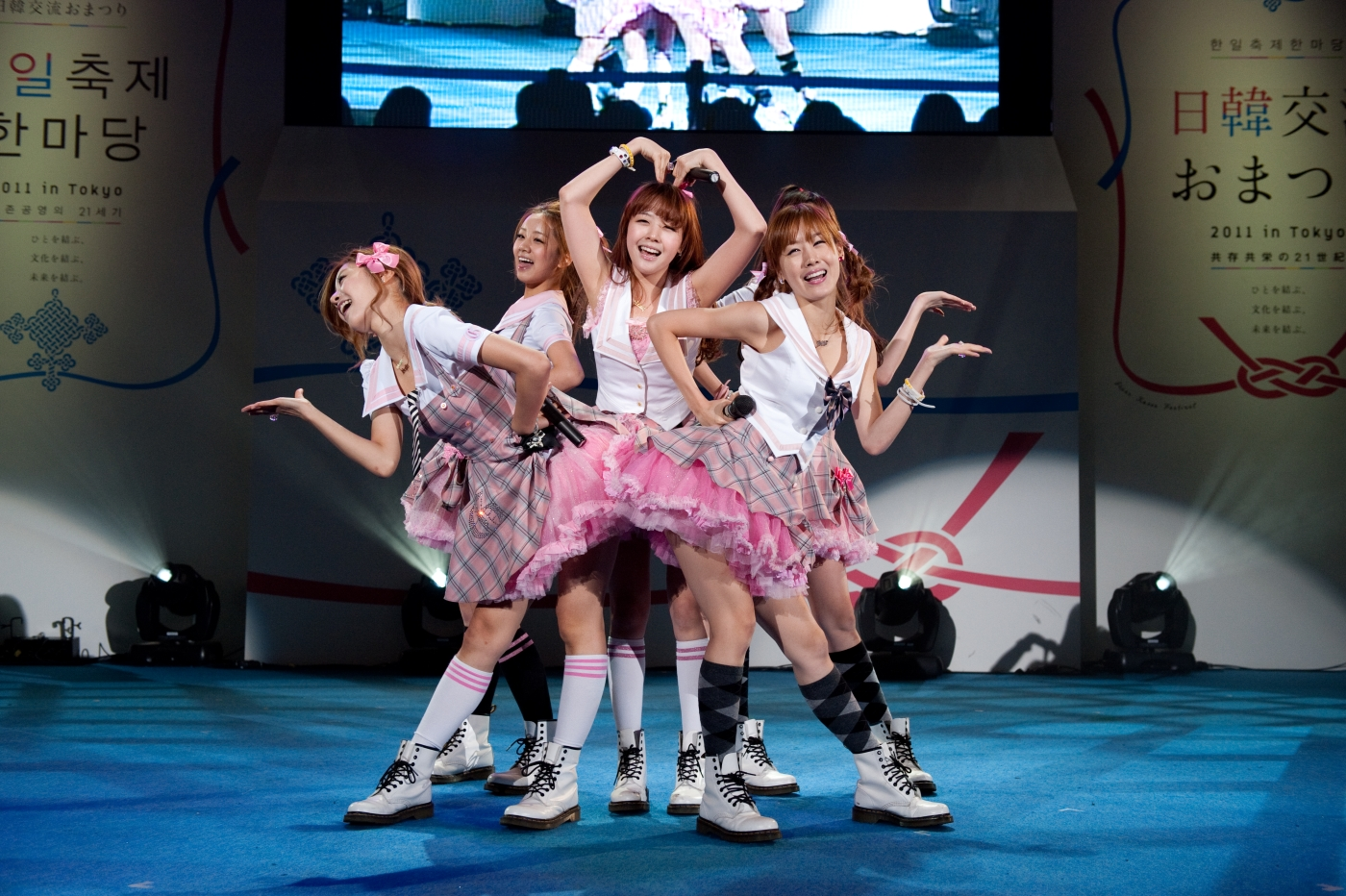 The two-day festival kicked off on October 1, with an opening ceremony under the slogan “Coexistence and co-prosperity for the 21st century,” followed by K-pop and cover dance contests alongside other cultural events. Various outdoor concerts were organized the next day, providing a unique chance to appreciate and compare the two nations’ traditional performing arts. A number of culture ministry-sponsored performances of fusion traditional Korean music and interpretative traditional dances were also performed on the stage. That evening, a K-pop concert featuring Korean idol groups including Miss A marked the highlight of the festival, reconfirming the heightened attention on Korean pop music. Throughout the event, visitors enjoyed Korea’s culinary culture, including tastings of savory Korean dishes and spices as well as a special cocktail performance involving makgeolli, a traditional Korean alcohol made with rice. The festival brought to the Japanese capital a variety of hands-on activities designed to offer an experience with Korean traditions and culture, such as trying on Hanbok, or Korean traditional clothing.